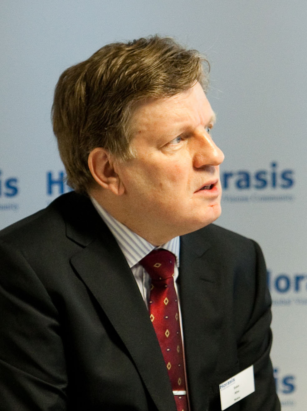 Esko Aho, Former Prime Minister of Finland; Executive Vice President, Nokia, at the 2010 Horasis Annual Meeting